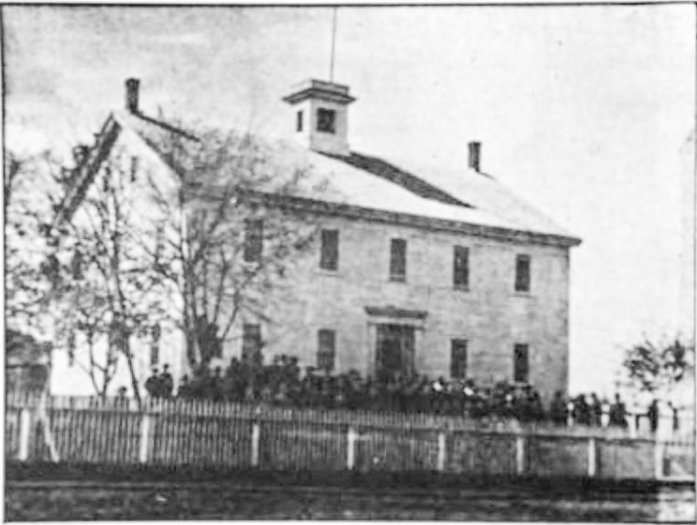 A view of the Portland Academy and Female Seminary as it stood in 1865